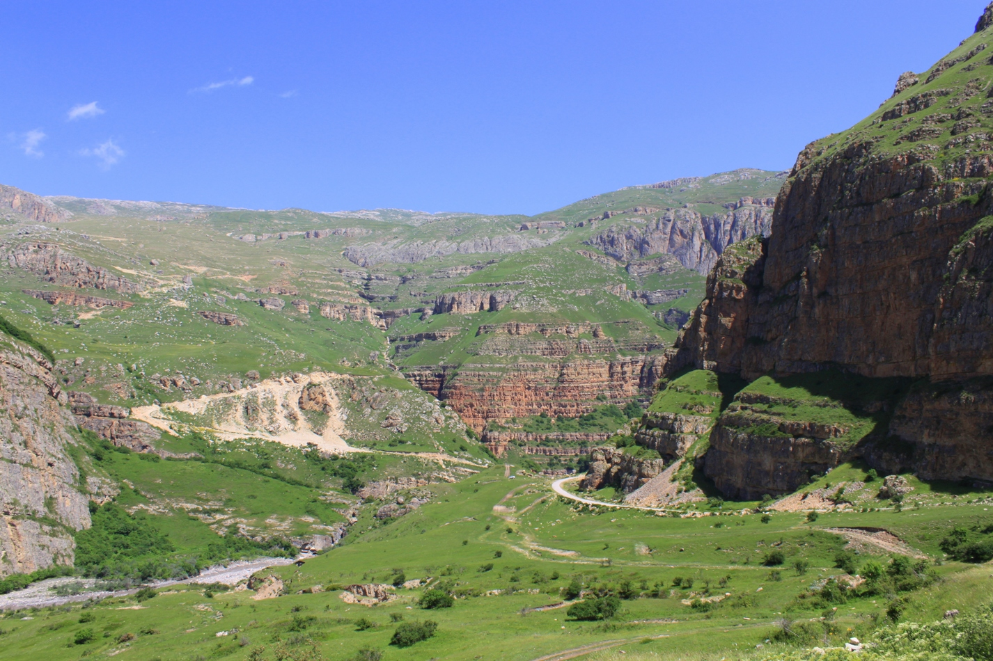 Quba area, Azerbaijan